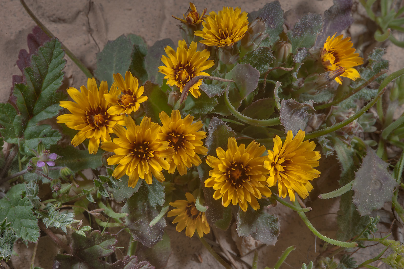 Cluster of Reichardia tingitana flowers near Ras Laffan, north-east Qatar.